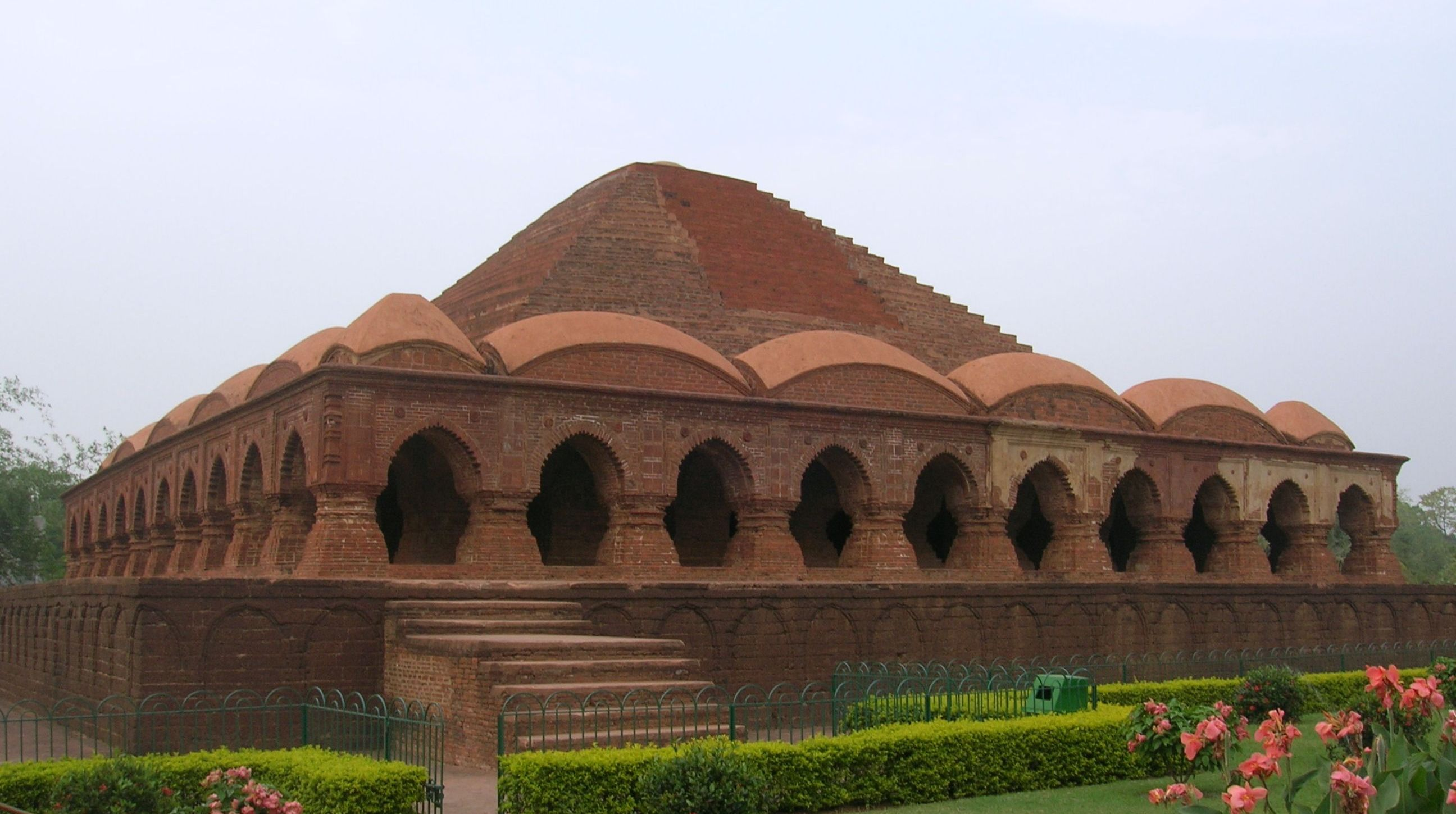 Rasmancha (c. 1600), a platform for Vaishanva Ras Yatra festival. Bishnupur, Bankura dist., West Bengal, India.